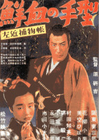 Movie poster for 1950 Japanese movie (左近捕物帖 鮮血の手型 Sakon torimonochō: senketsu no tegata, literally "Sakon Detective Story: The Fresh Blood Handprint).